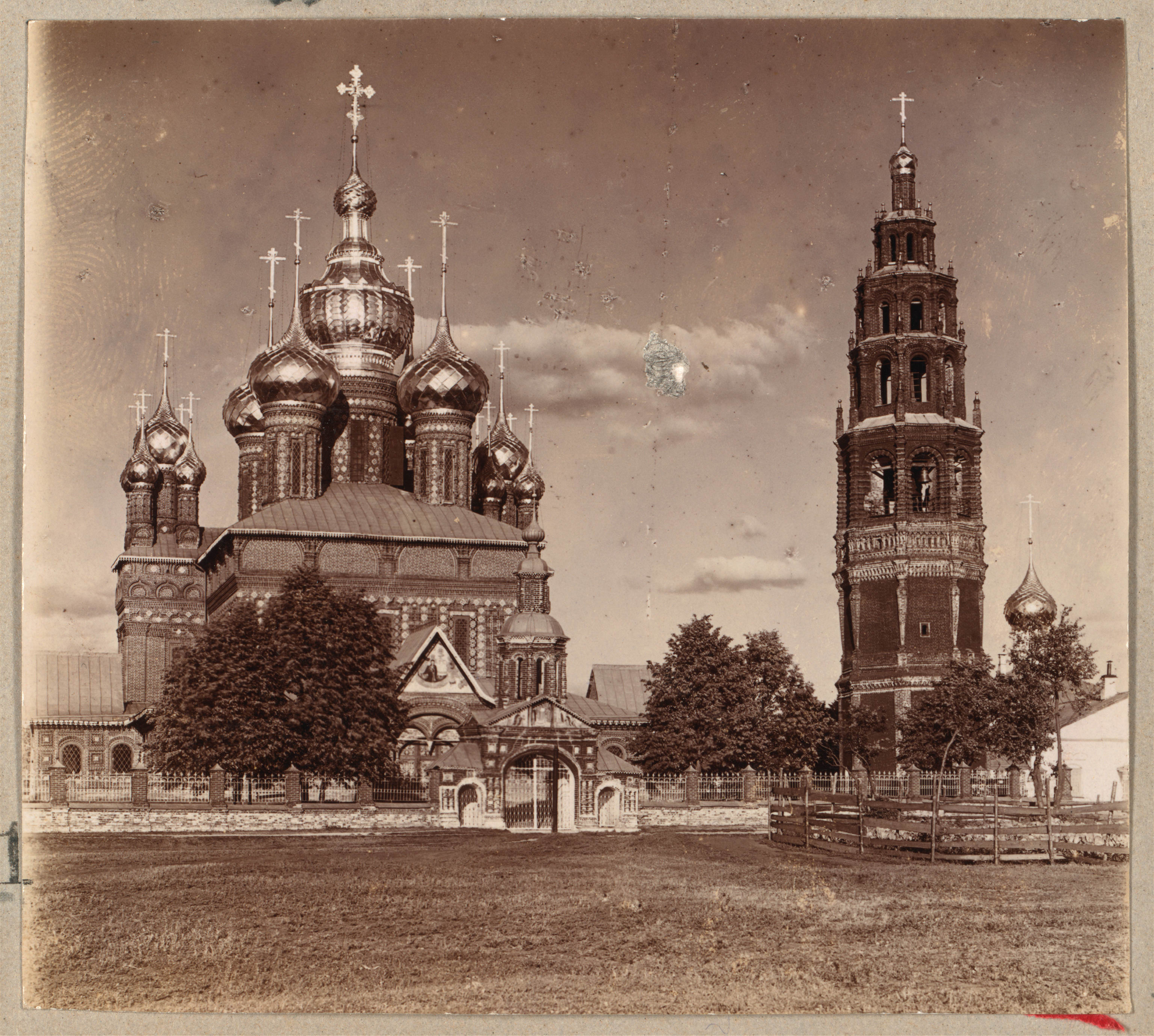 The Church of St. John the Baptist in Tolchkovo. Yaroslavl, 1910. Photographer S. M. Prokudin-Gorskii.